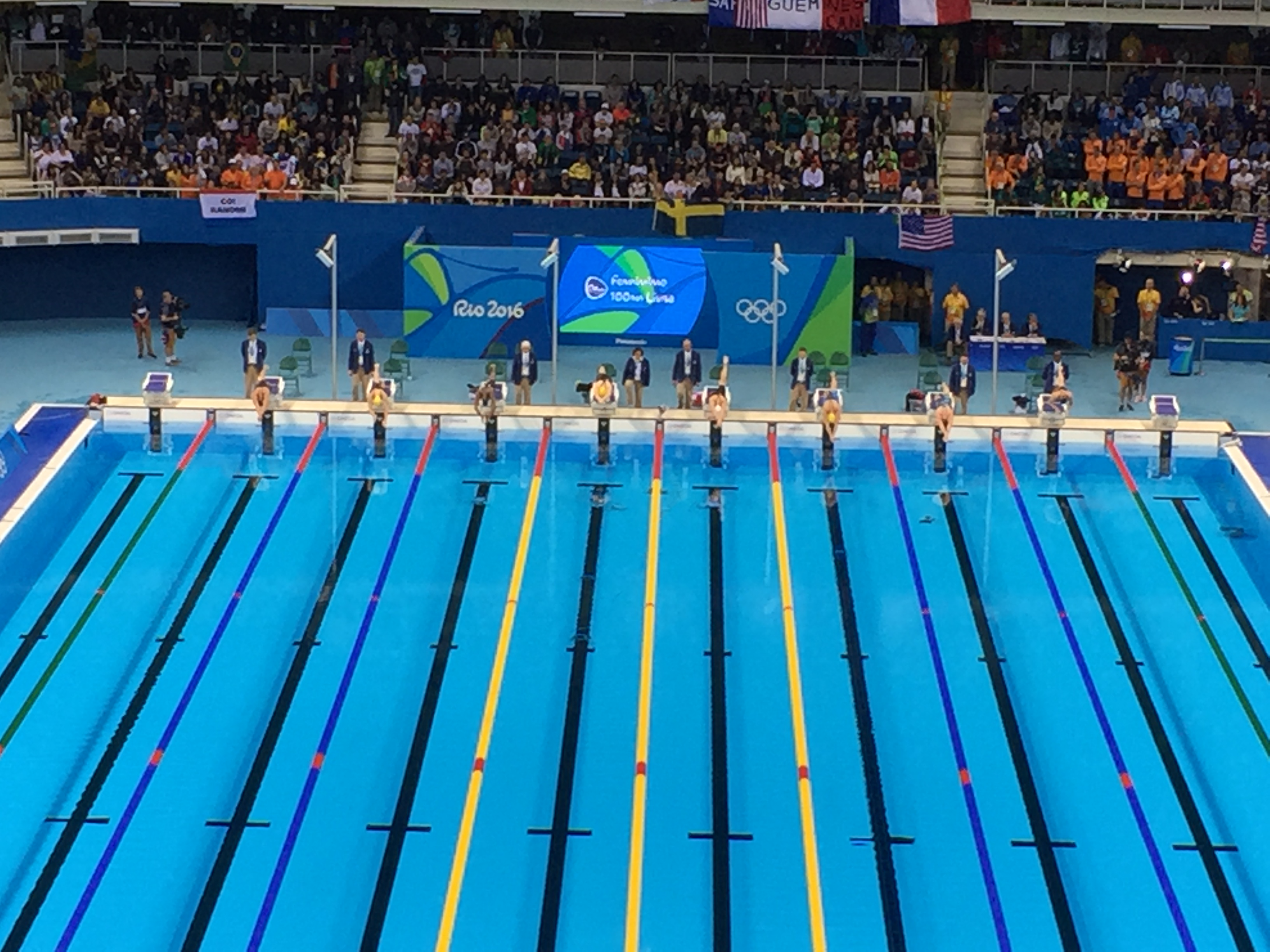 Rio 2016 Summer Olympics